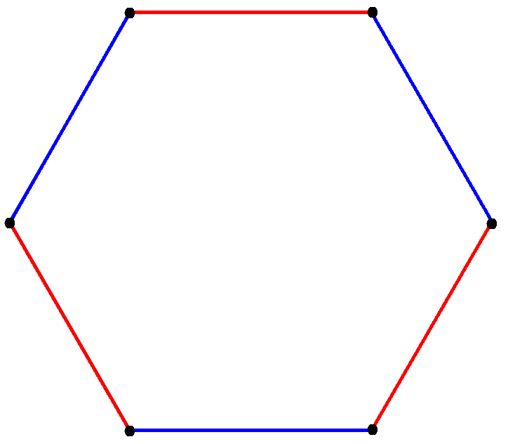 Hexagon as a truncated triangle (bicolored edges)